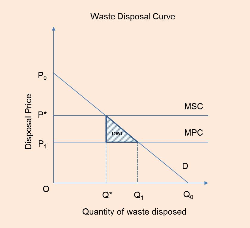 Adapted from Legal Waste Disposal Market from Portney and Stavins (2000)